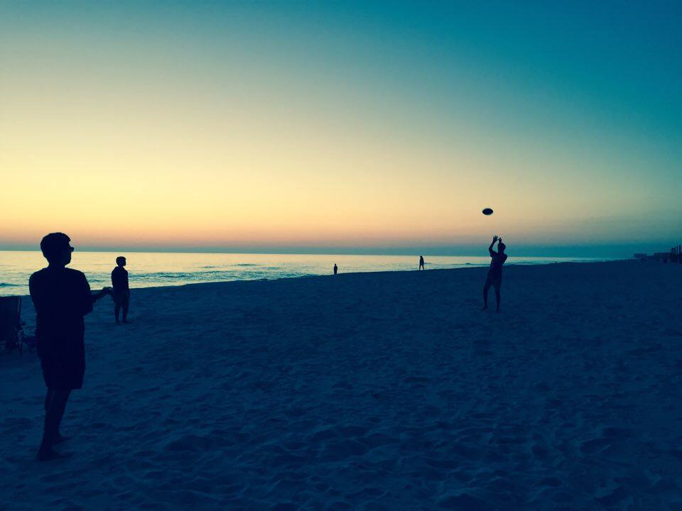 Photograph I took of me an my friends chilling and throwing a football around at Panama City Beach on Christmas Eve 2016 in the evening around 6:30 pm.